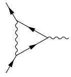 vertex correction in QED This is the one-loop correction to the vertex function Γ in QED. It leads to, among other things, a shift of the electron magnetic moment from 2 to 2.0023 .